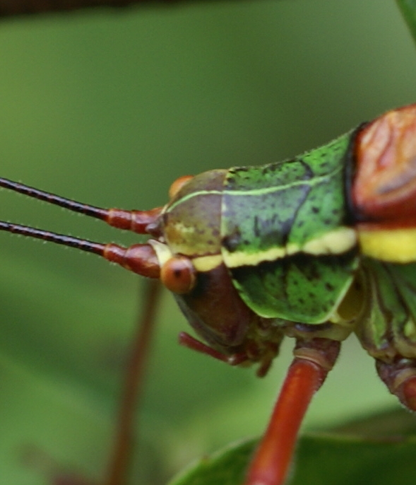 Barbitistes serricauda photo taken in Munich (Obermenzing). Cutout of File:Laubholz Säbelschrecke2.JPG